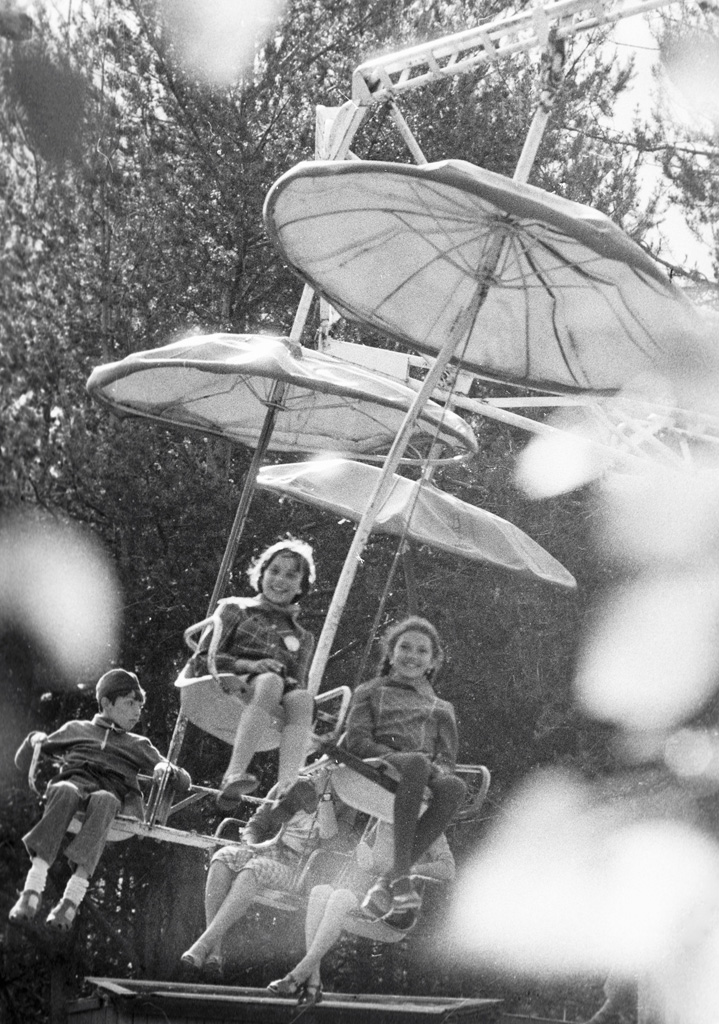 “In the Ukhta children's park”. Children on the merry-go-round in the Ukhta park.